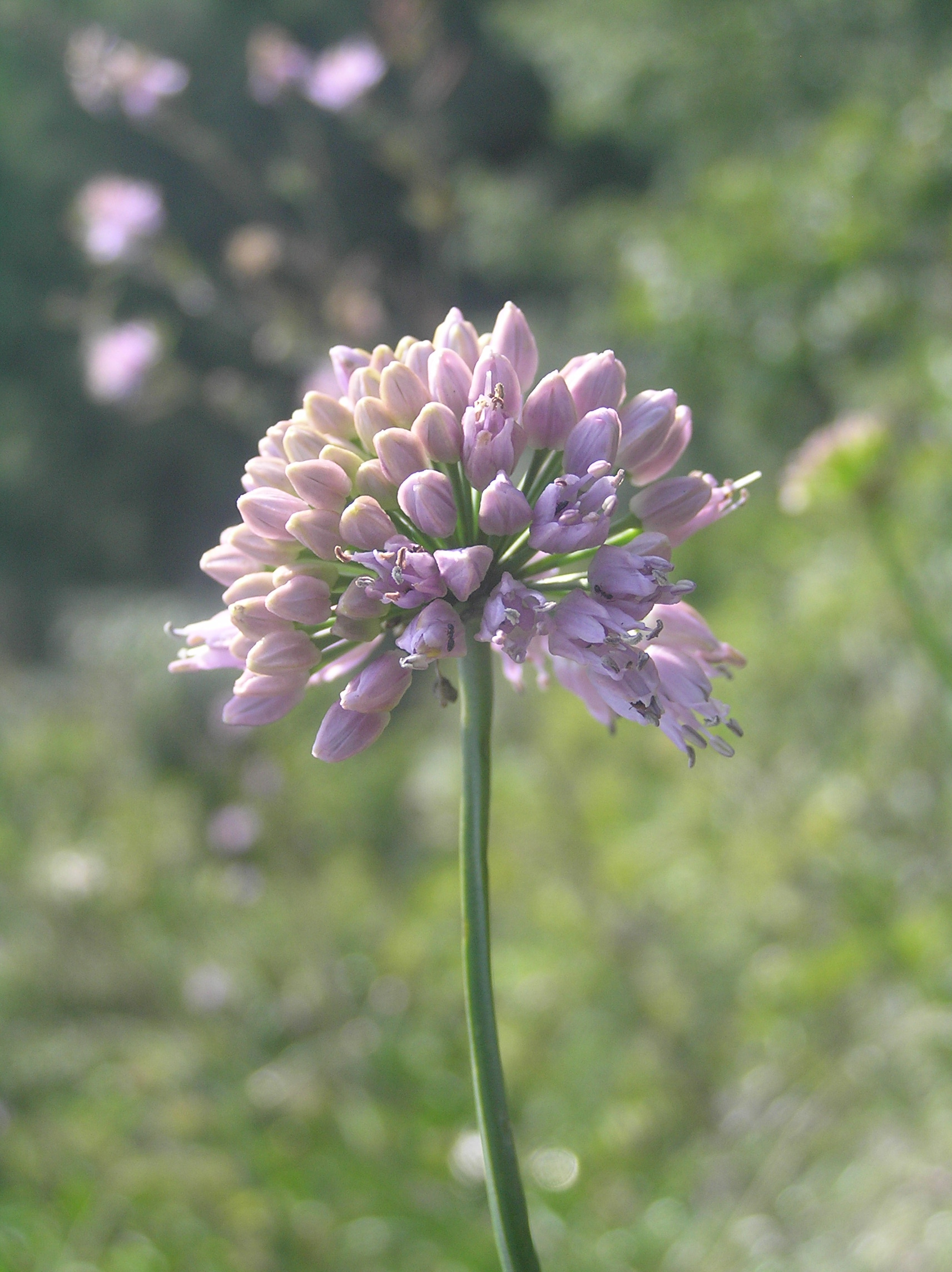 Allium senescens subsp. montanum, PP: Obřanská stráň, Brno, Czech Republic